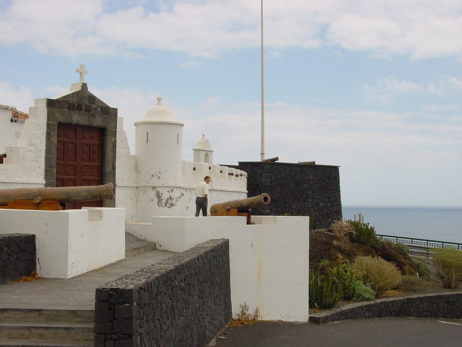 Santa Cruz de La Palma.